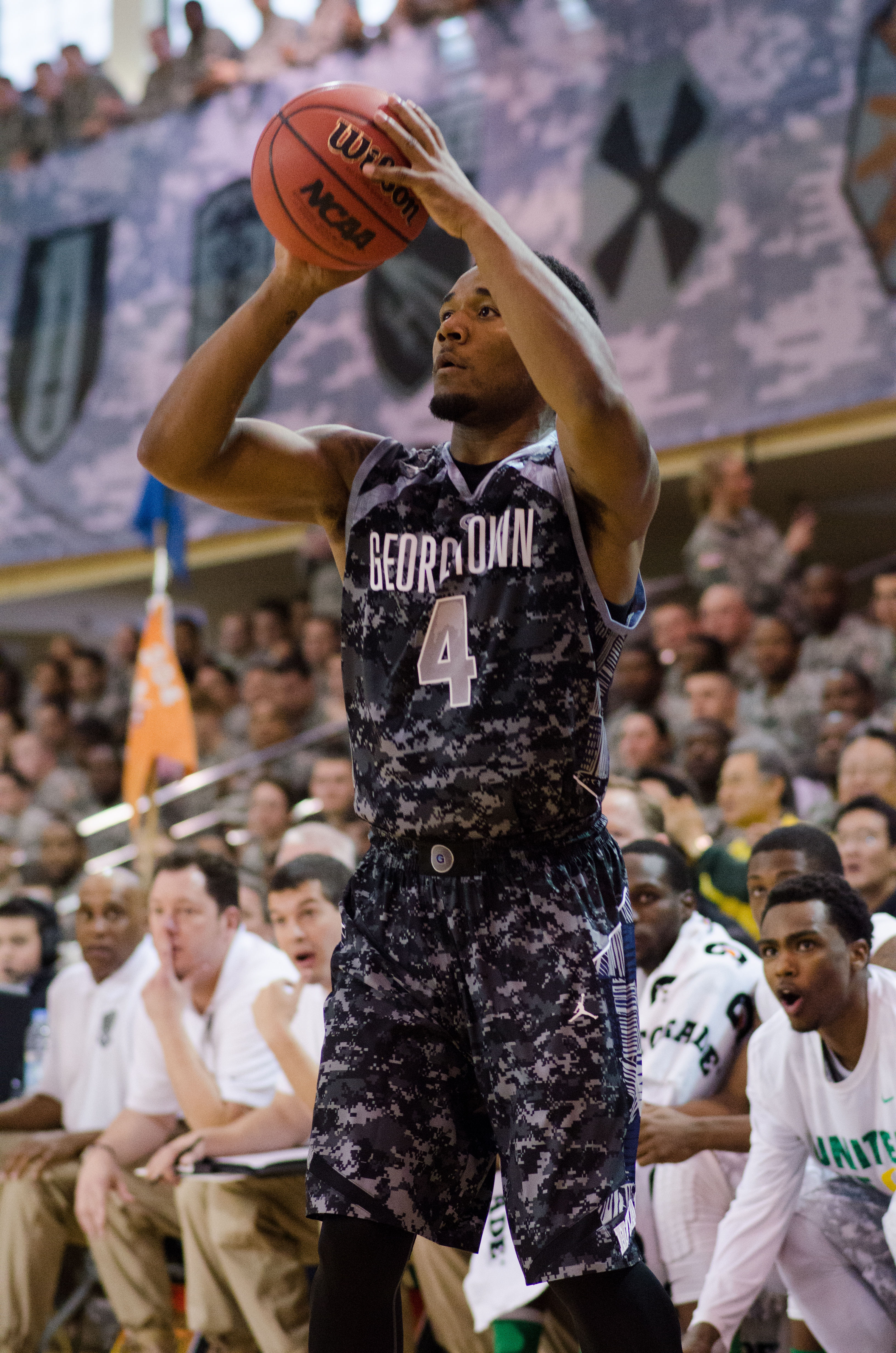 D'Vauntes Smith-Rivera in-bounds a ball during the 2013 Armed Forces Classic at Camp Humphreys in South Korea. During the game, Smith-Rivera's jumper gave Georgetown its last lead, 42-39, in a game they ultimately lost 82-75.